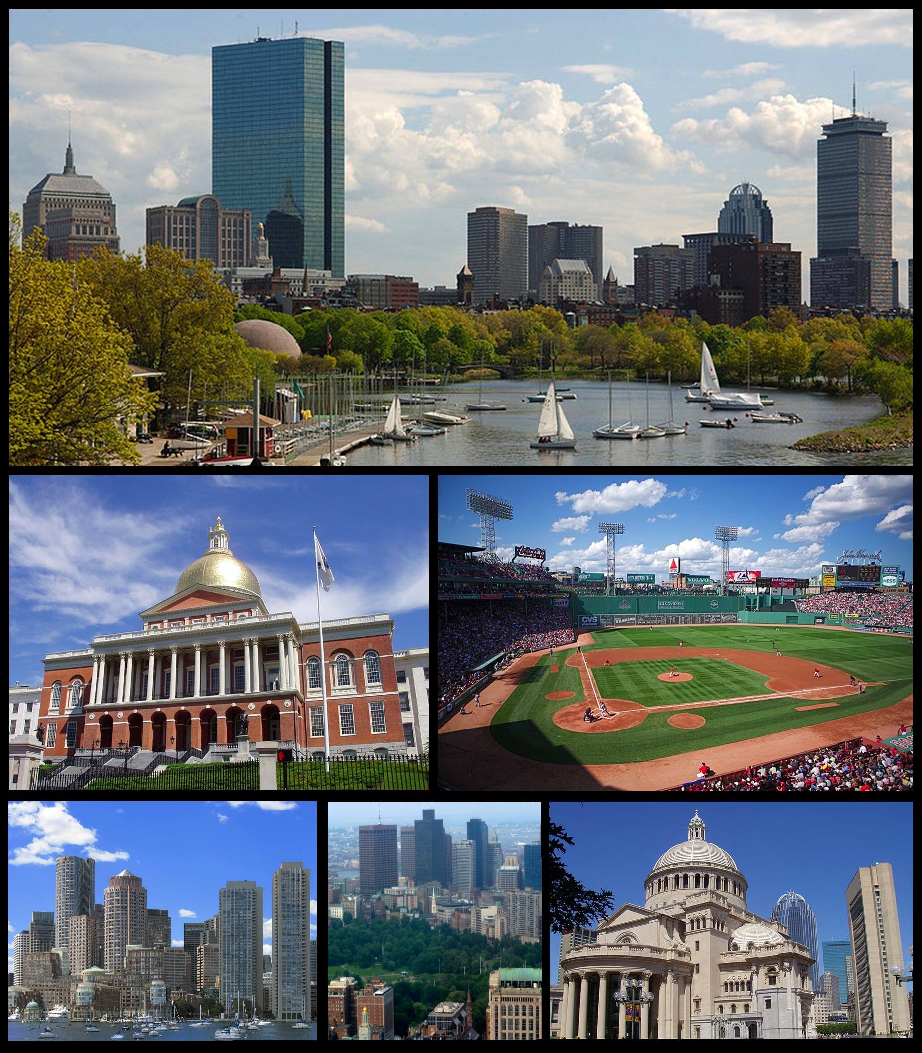 a modified version of the Boston montage photo, added new photos of Boston Common and the financial district.